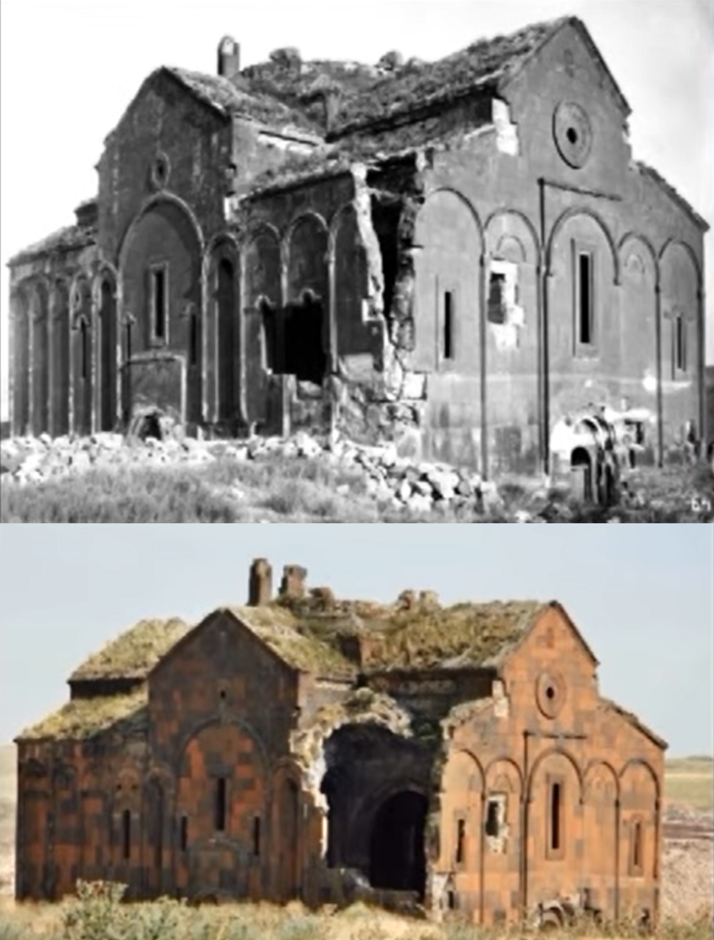 Damage done to the Cathedral of Ani by the 1988 Spitak earthquake